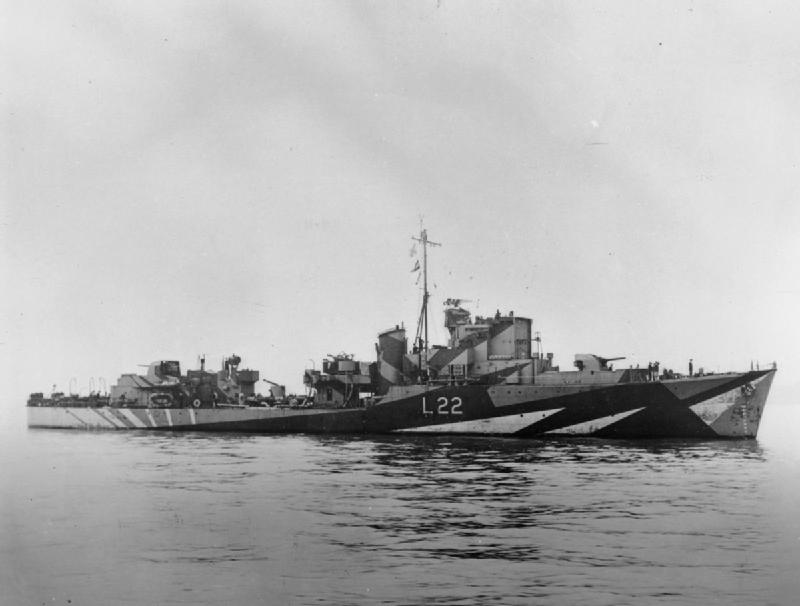 Photograph of British Hunt class destroyer HMS Aldenham.